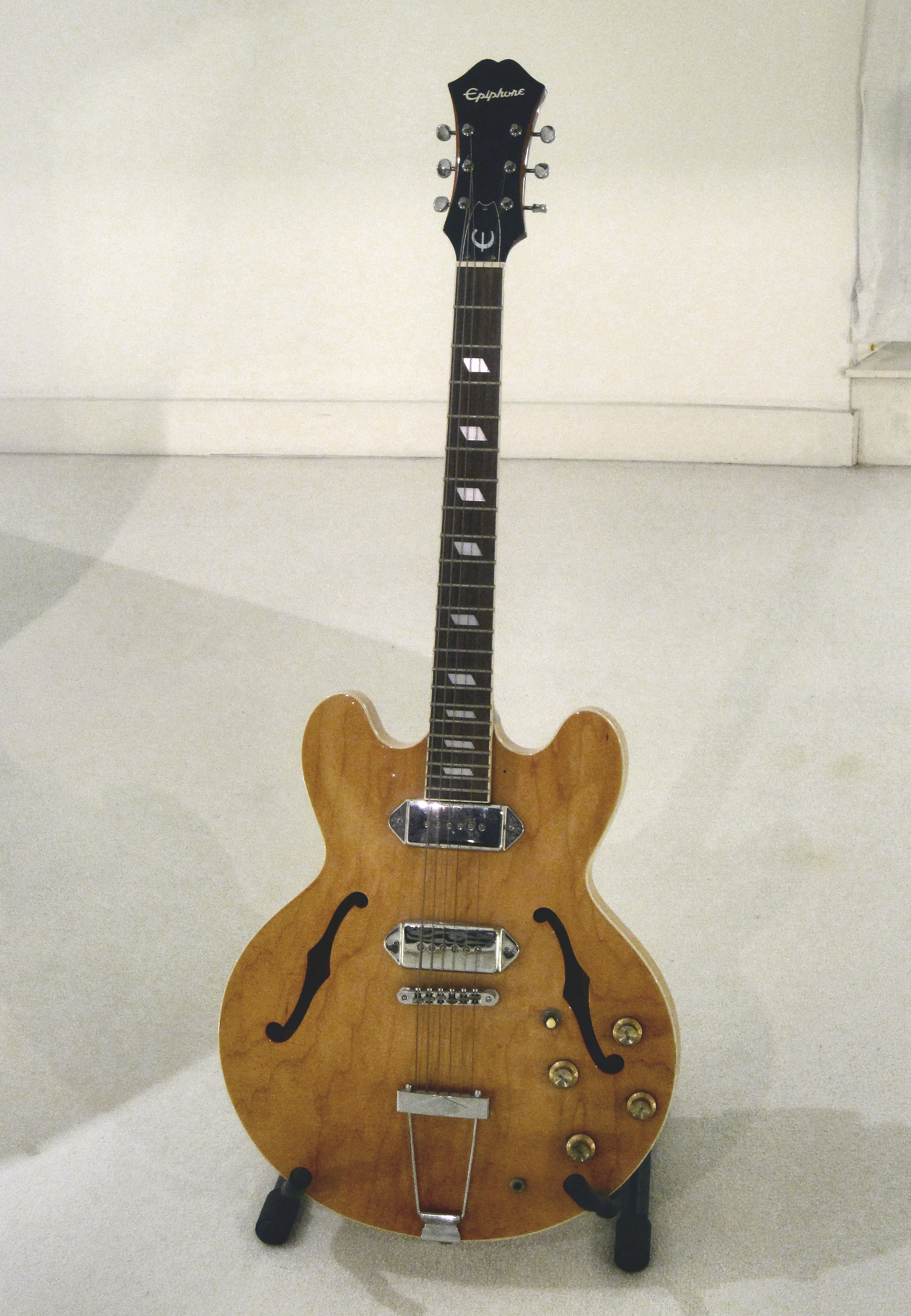 The Epiphone Casino asused by John.. The Epiphone Casino is a thinline hollow body electric guitar manufactured by Epiphone, a branch of Gibson. It is essentially Epiphone's version of the Gibson ES-330. The guitar has been associated with such guitarists as George Harrison, John Lennon, Paul McCartney, Keith Richards, Ryan Ross, Noel Gallagher, The Edge, Dave Grohl and Gary Clark, Jr. Construction The Casino is a thinline hollow-bodied guitar with two Gibson P-90 pick-ups, and although generally come with a trapezoid tailpiece, often a Bigsby vibrato tailpiece is used in its place (either as a factory-direct feature or as an aftermarket upgrade). Unlike semi-hollow body guitars such as the Gibson ES-335, which have a center block to promote sustain and reduce feedback, the Casino and the Gibson ES-330 are true hollow-bodied guitars. This makes it lighter and louder when played without an amplifier, but much more prone to feedback than semi-hollow or solid-body electrics. Early versions of the Casino had a spruce top. Through 1970, the Casino headstock was set at a 17-degree angle and the top was made of five laminated layers of maple, birch, maple, birch, and maple.[1][2] With the exception of the John Lennon models, subsequent Casinos have been made with 14-degree headstock angle with five layer all maple laminated tops.[1][3] Current[when?] versions have a laminated maple top, sides, and back, and a mahogany neck